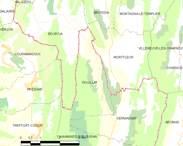 Map of French commune: Pouillat Map commune FR insee code 01309.png